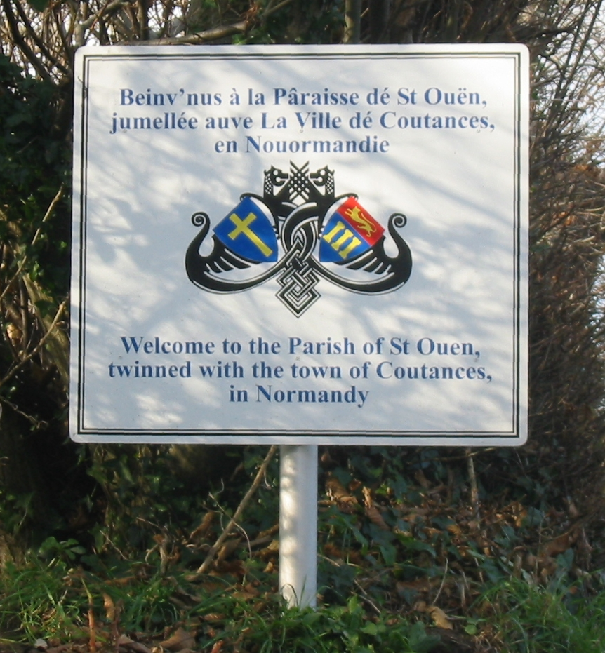 Twinning sign in St. Ouen, Jersey - twinned with Coutances